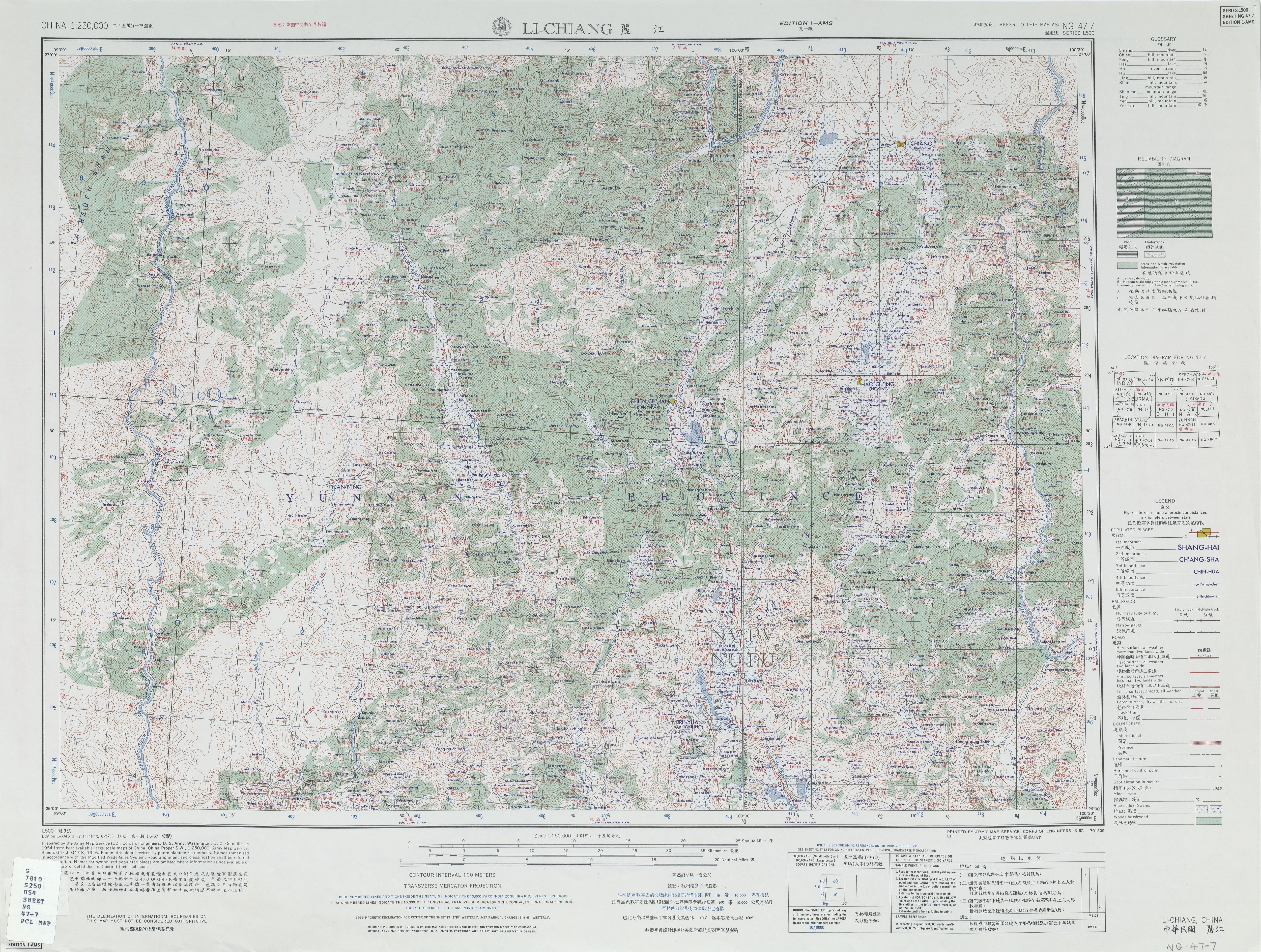 China AMS Topographic Maps